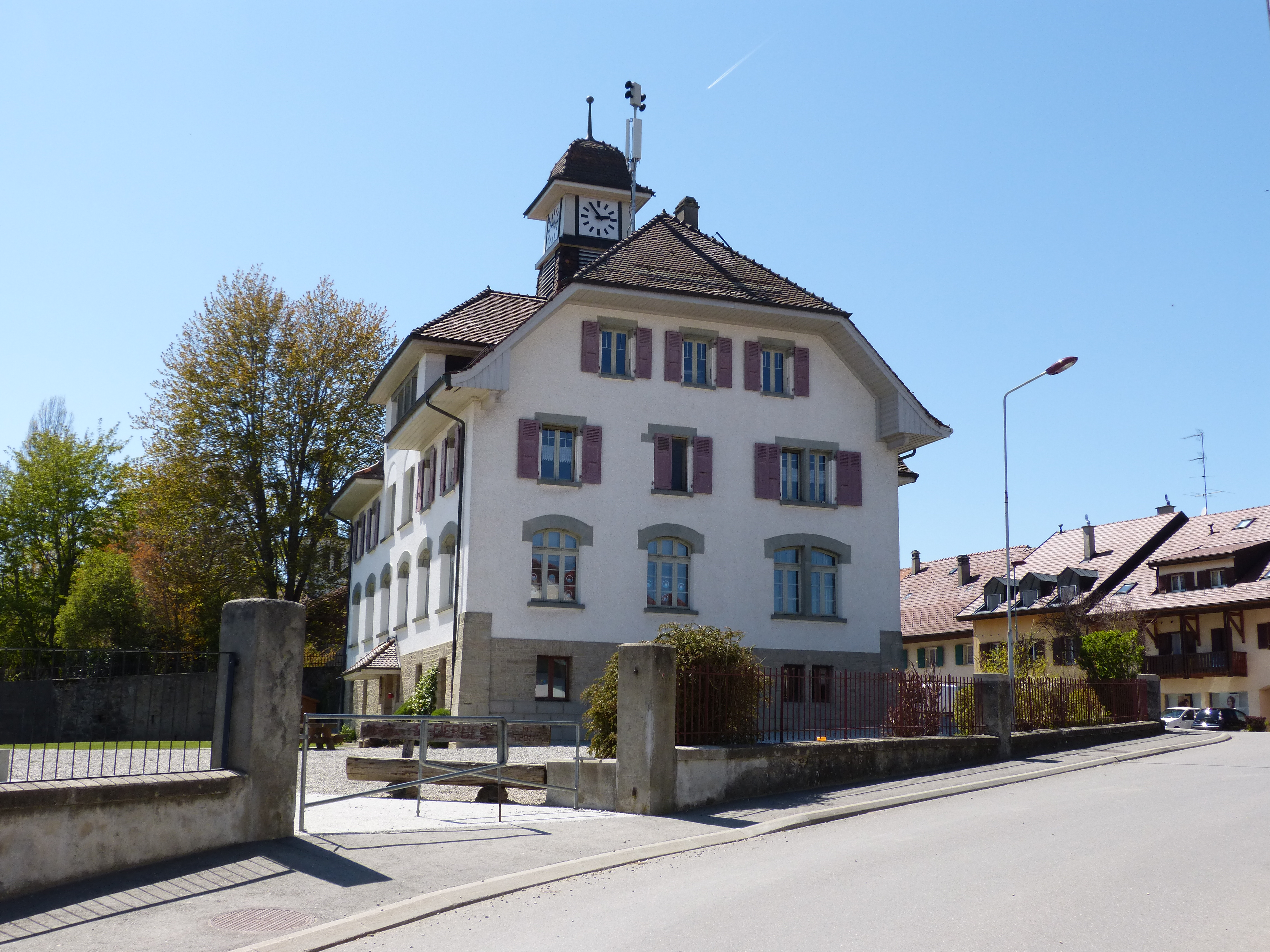 Primary school of Saint-Cierges.